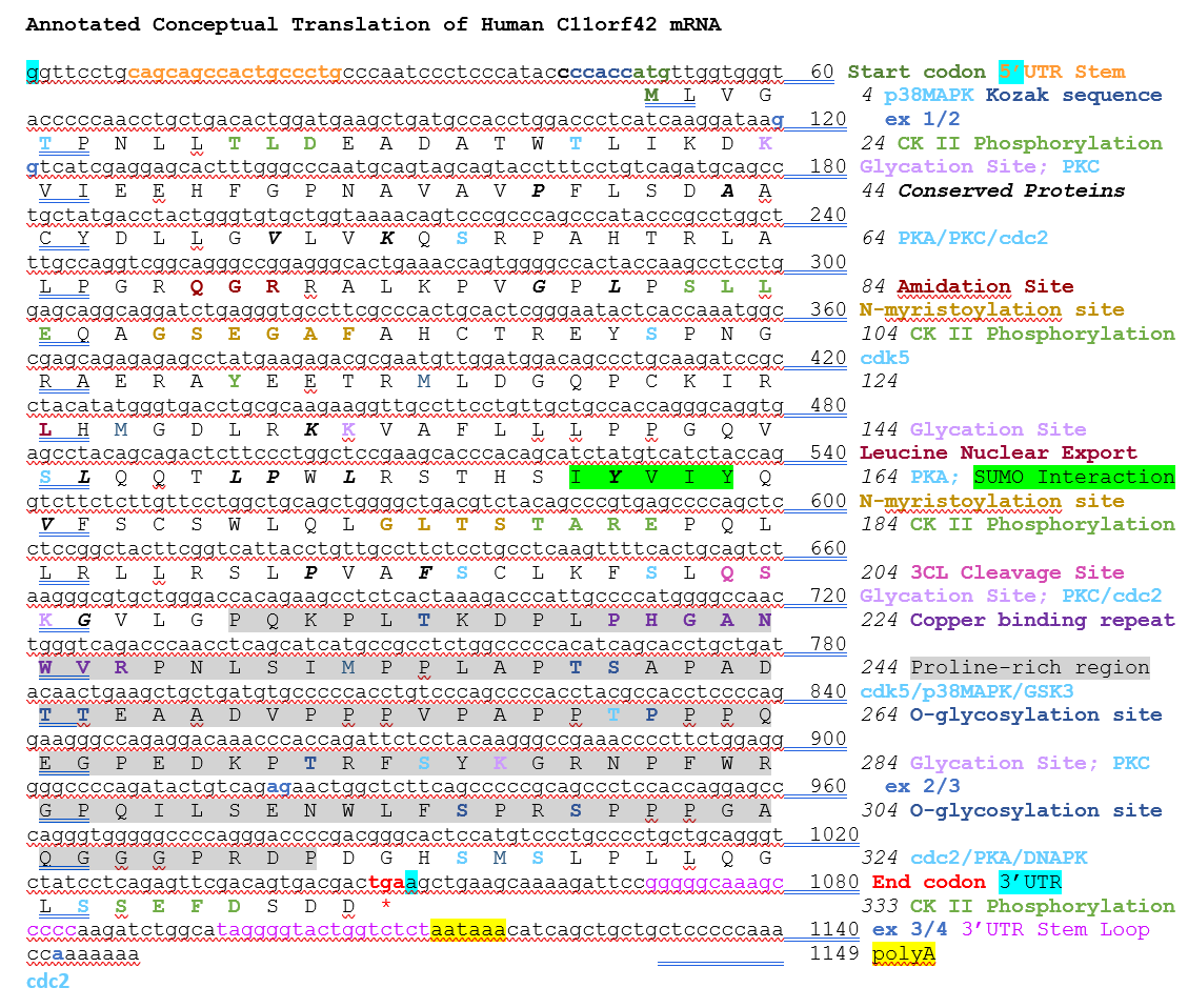 Conceptual Translation showing post-translational modifications of C11orf42.